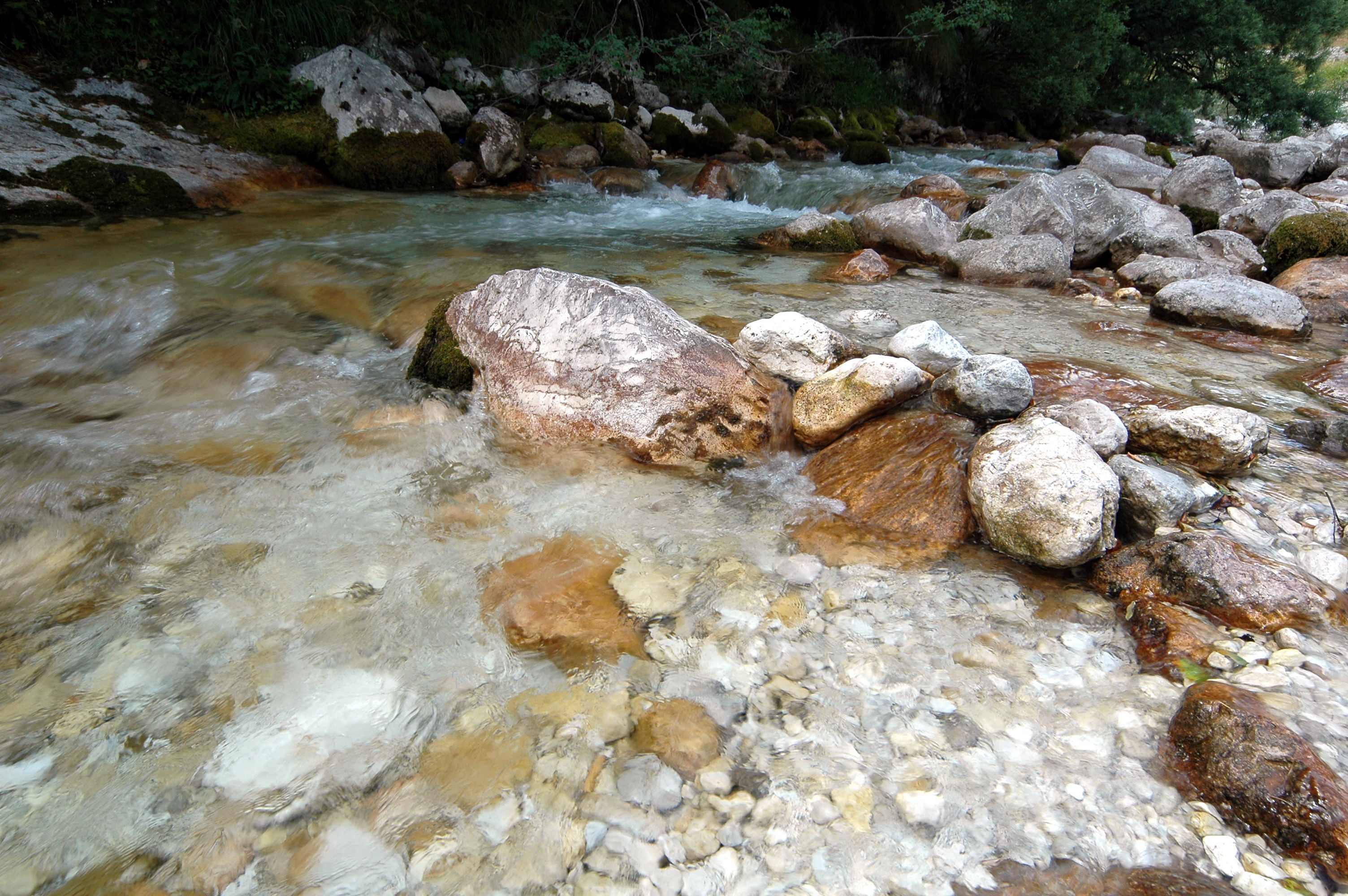 On the Soča-river next to the hamlet "Pri Cerkvi", Trenta, municipality Bovec, Slovenia, EU